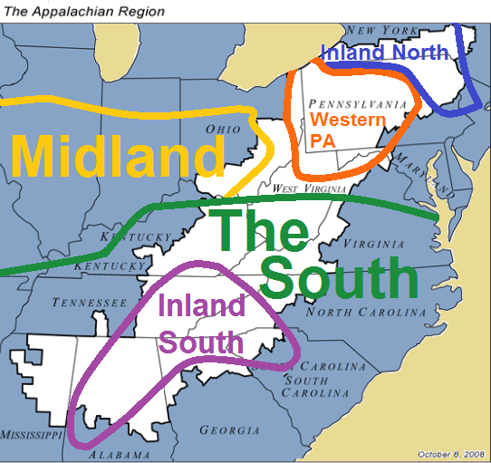 Based on the 2006 Atlas of North American English's dialect map (p. 148): regional American English dialects laid on top of the Appalachian region.